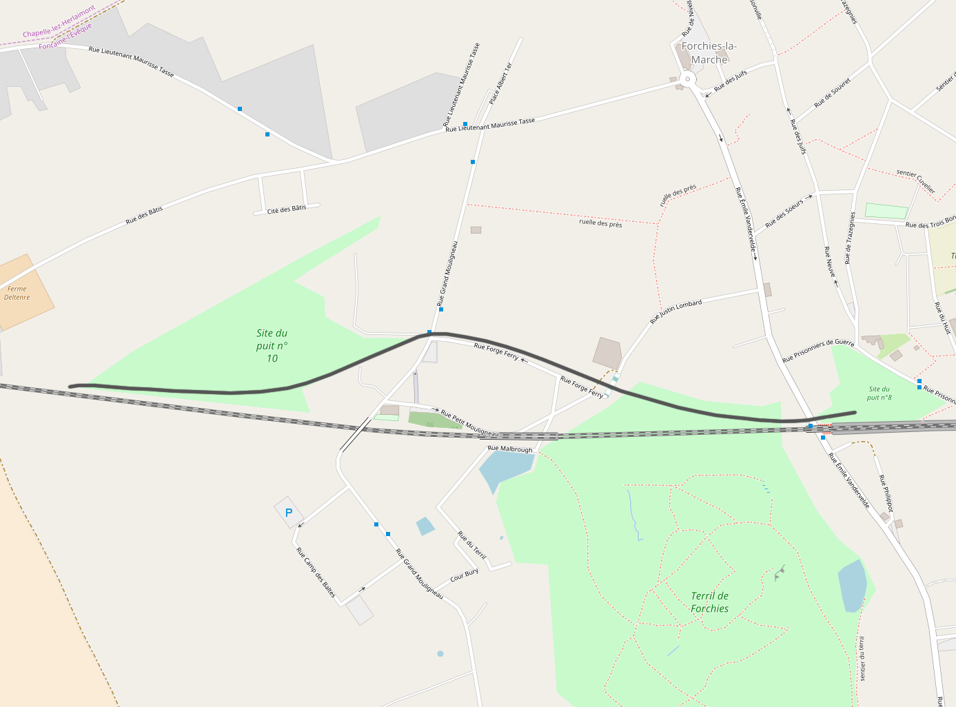 Belgian Railway Line 250, Y Forchies - Fosse 8